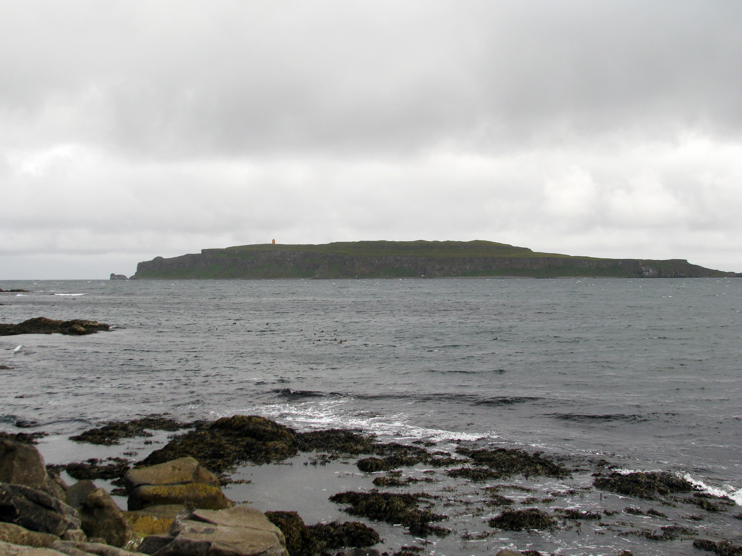 Grímsey in Húnaflói, an island on Iceland.